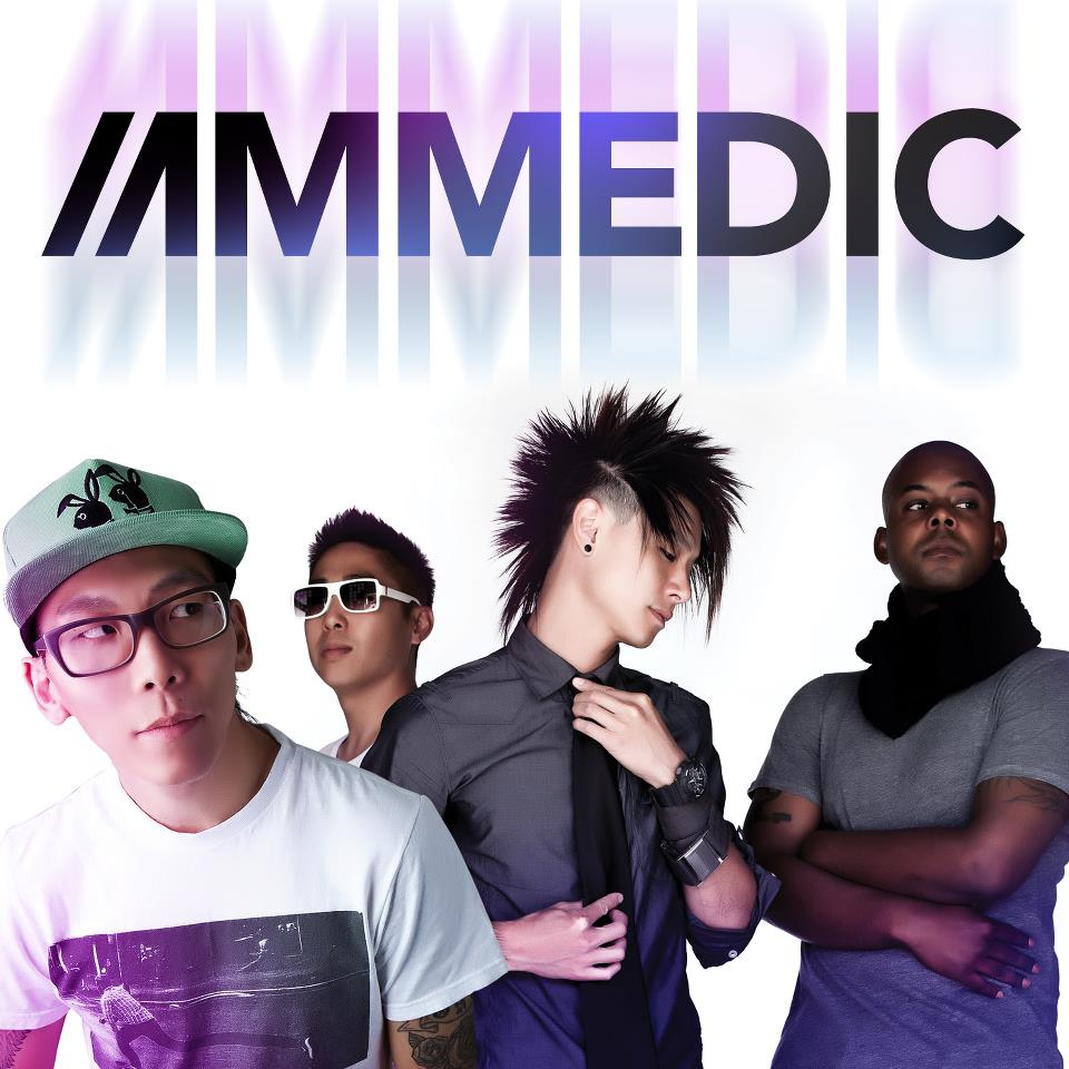 IAMMEDIC cover